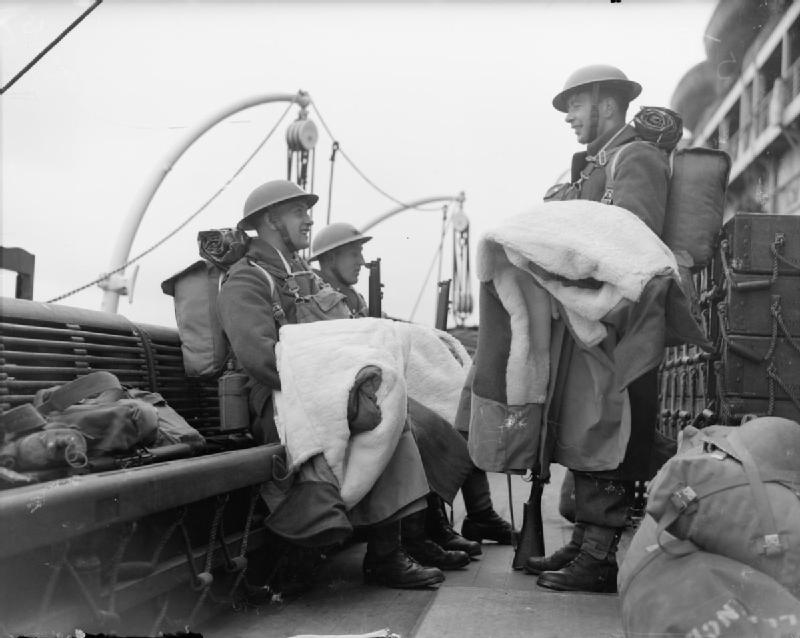 The British Army in Norway April - June 1940 Troops on board a ship bound for Norway carry their newly-issued sheepskin, April 1940.